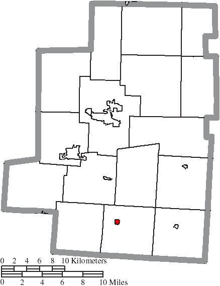 Map of the municipal and township boundaries of Morrow County, Ohio, United States, as of the 2000 census, with the location of the village of Marengo highlighted. Township borders are shown only in unincorporated areas in order to differentiate incorporated and unincorporated areas more clearly.